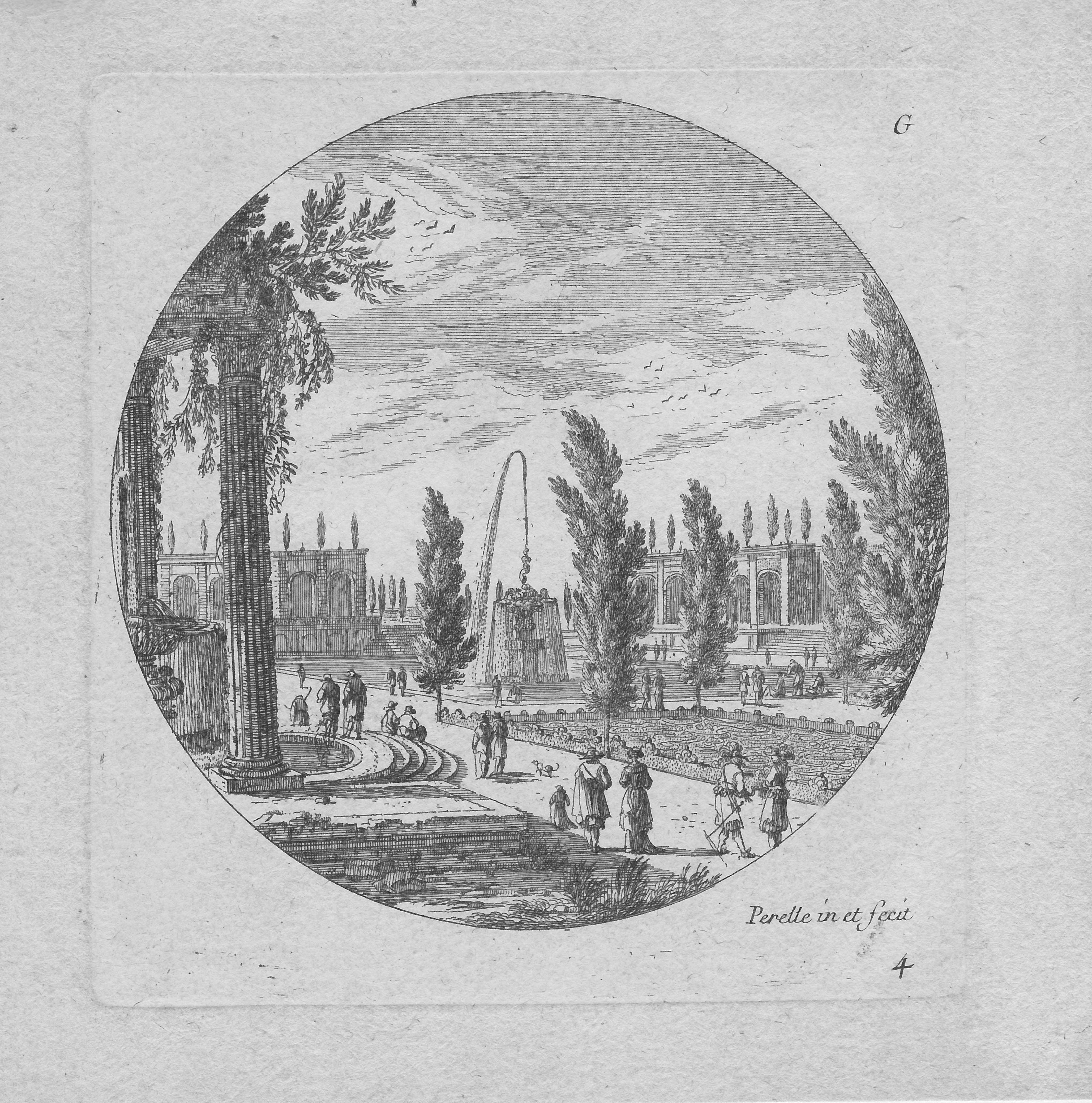 Garden of a french castle, etching by Gabriel Pérelle (1604-1677), 12 x 11,3 cm, private collection.